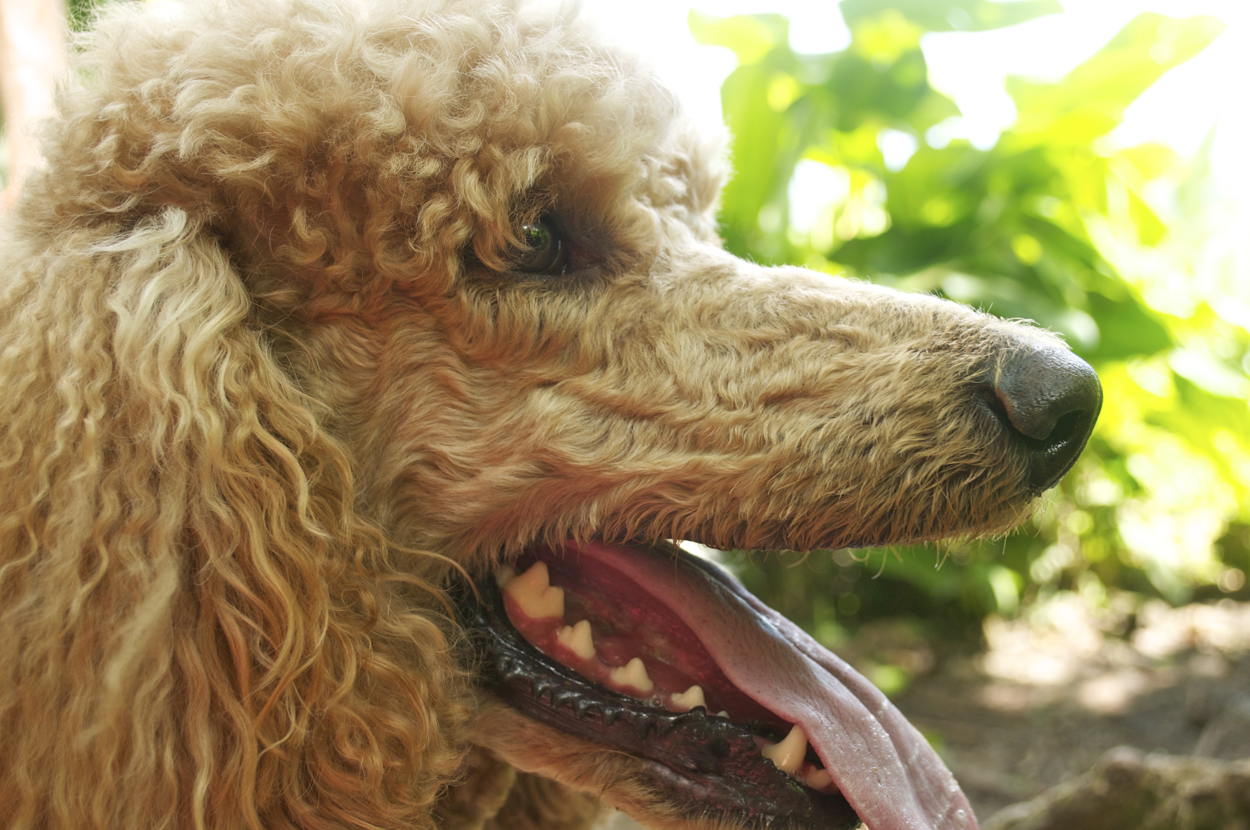 Apricot Poodle taken by Jason Turse, June 2011, using a Nikon D5000.